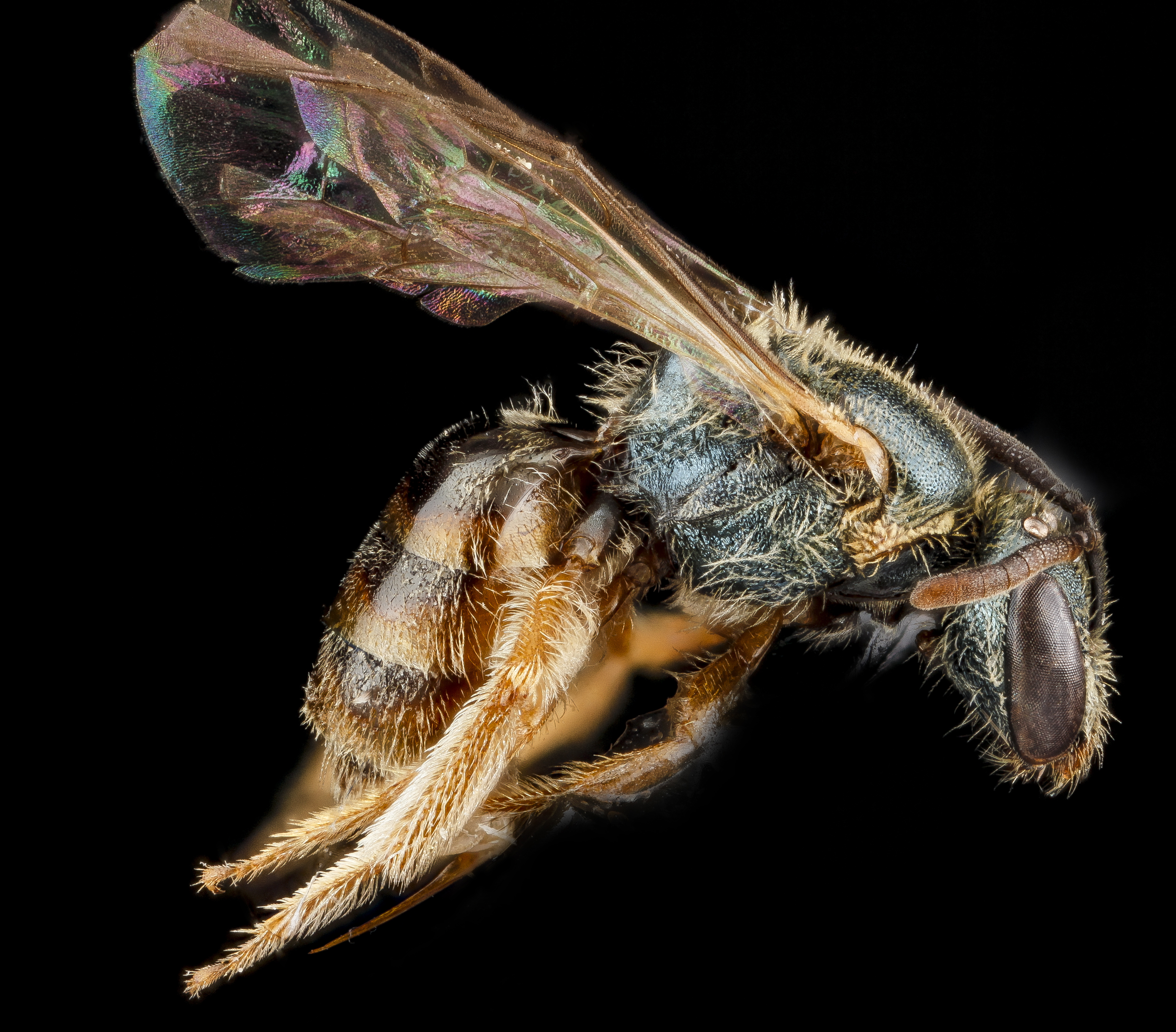 Nacogodoches County, texas, Big Thicket National Preserve